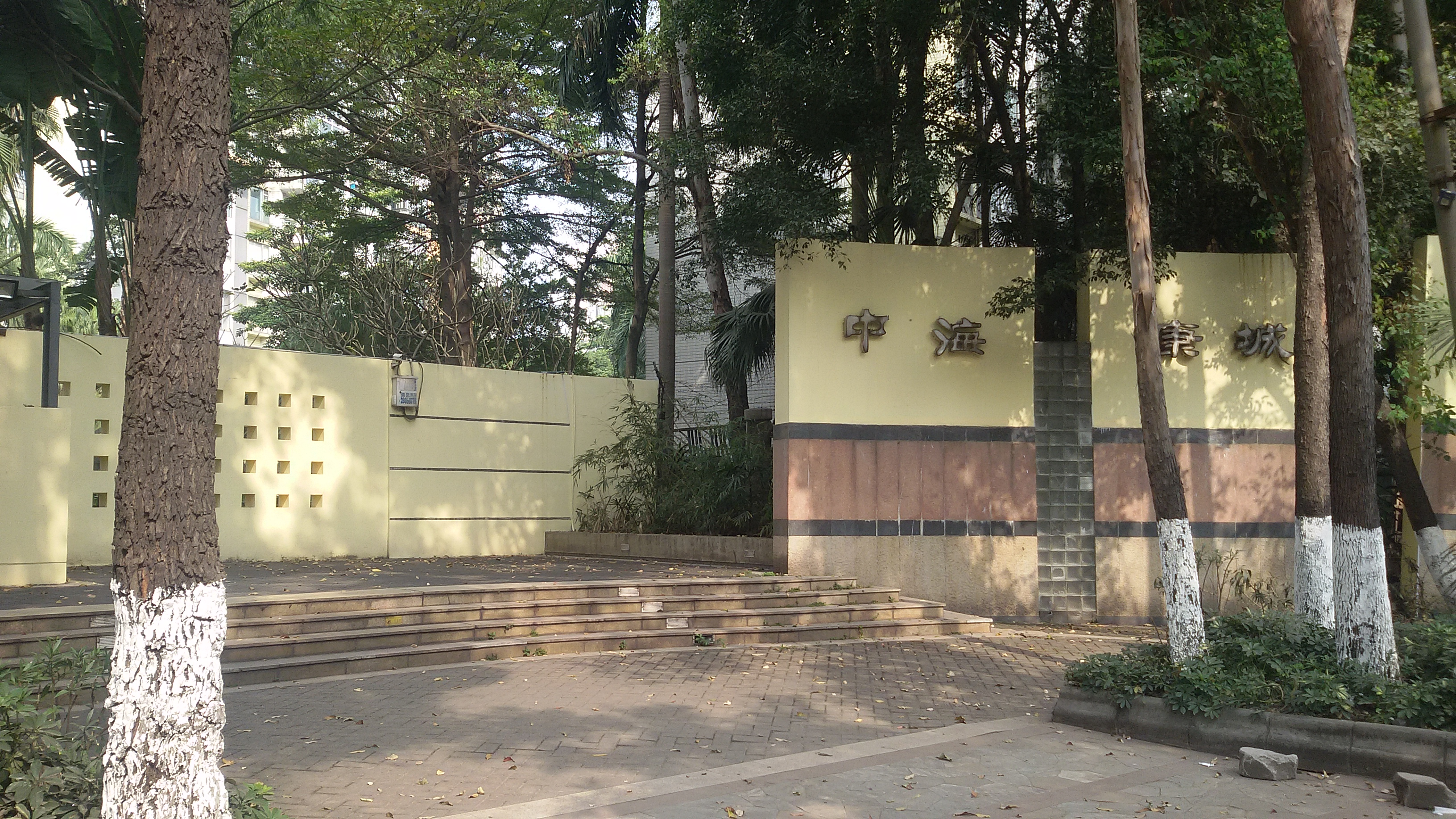 Cannes Garden 粵語: 中海康城